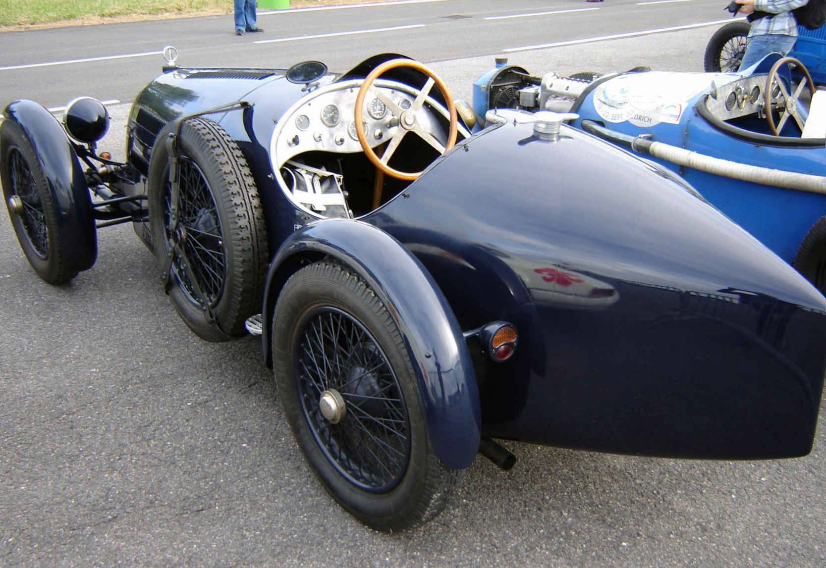 1927 BNC 527 at the Autodrome de Linas-Montlhéry, 2009